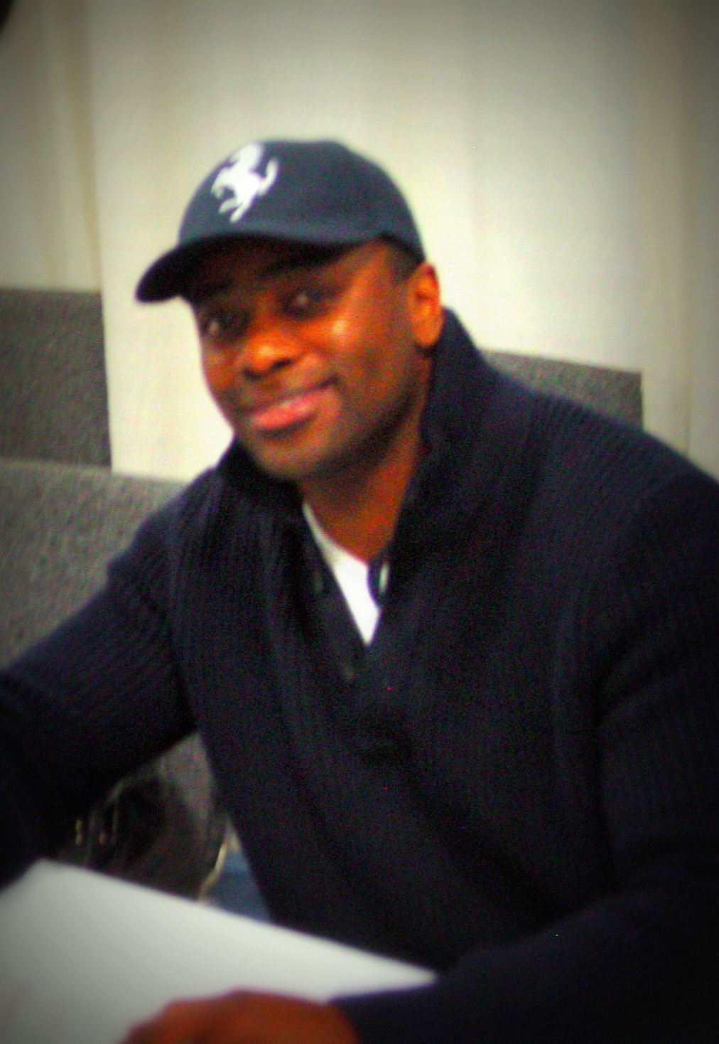 Former NFL running back Curtis Martin posing for a photo at a Collectors' Showcase of America autograph signing in Edison, New Jersey in March 2012.